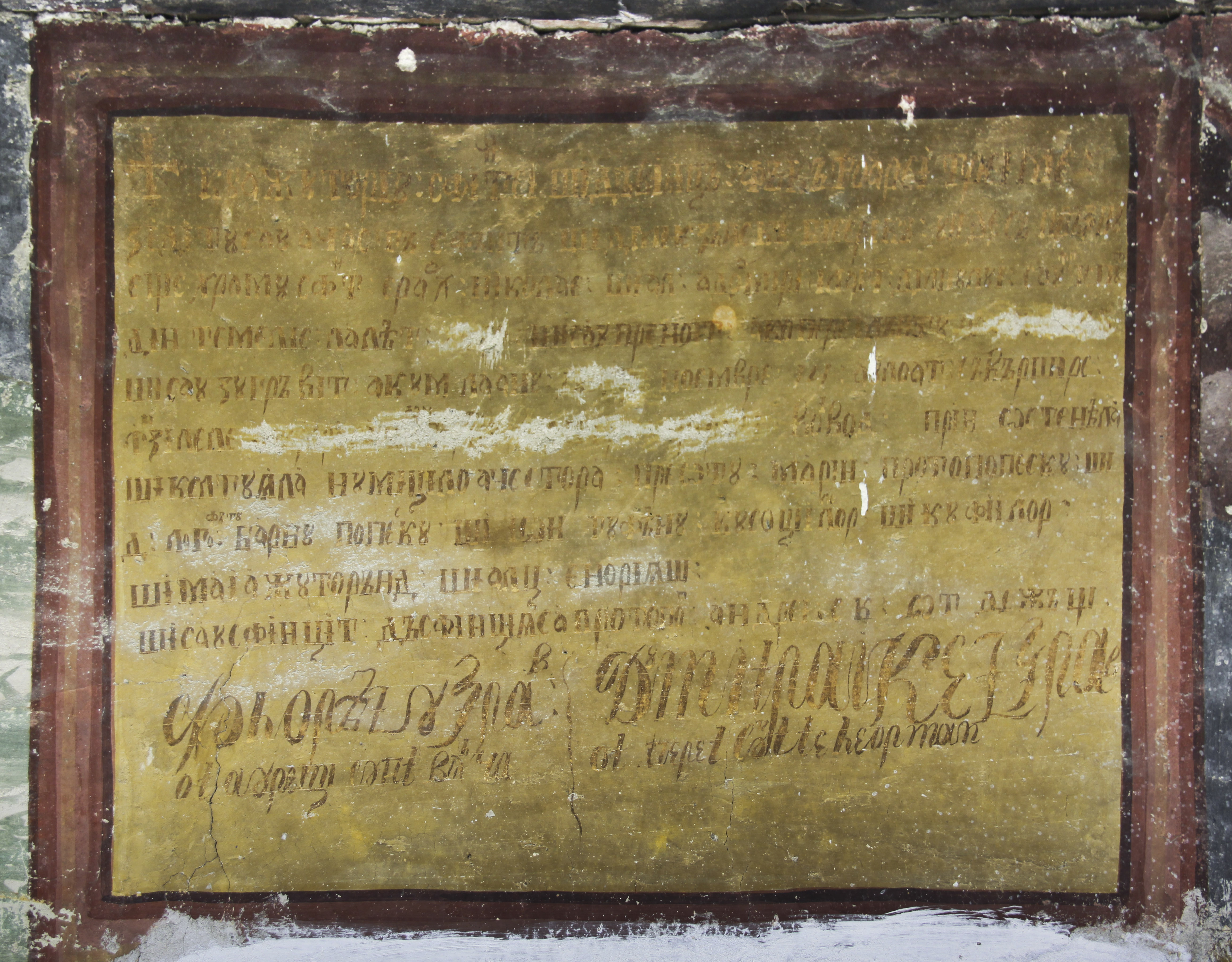 Chilia, Olt county, Romania: the parish church.